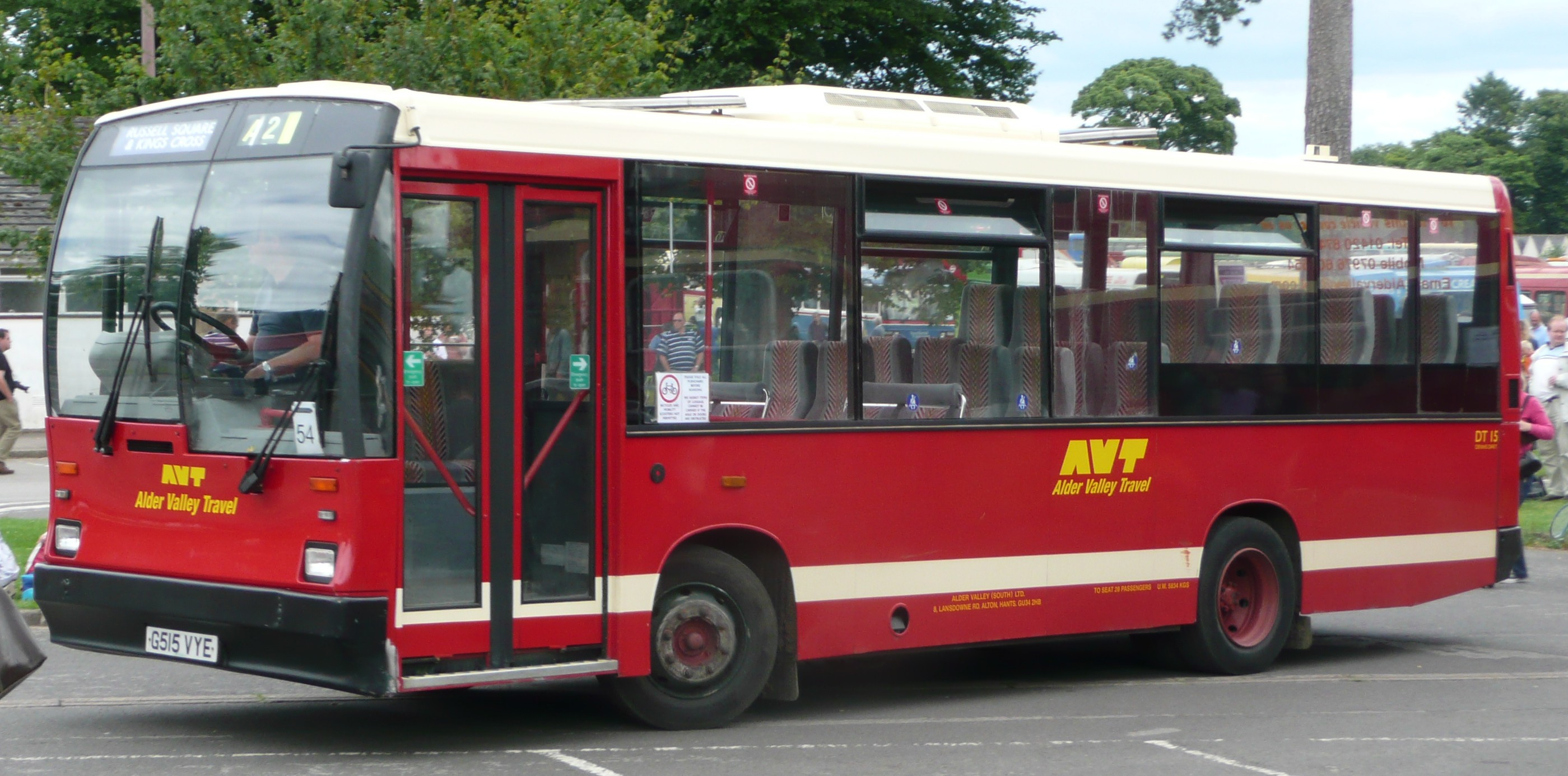 Alder Valley Travel's DT15 (G515 VYE), a Dennis Dart/Duple Dartline, at the 2008 Alton bus rally at Anstey Park.